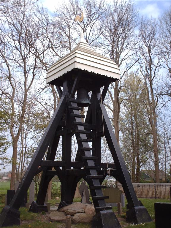 wooden bell tower in Eesterga, Friesland, Netherlands